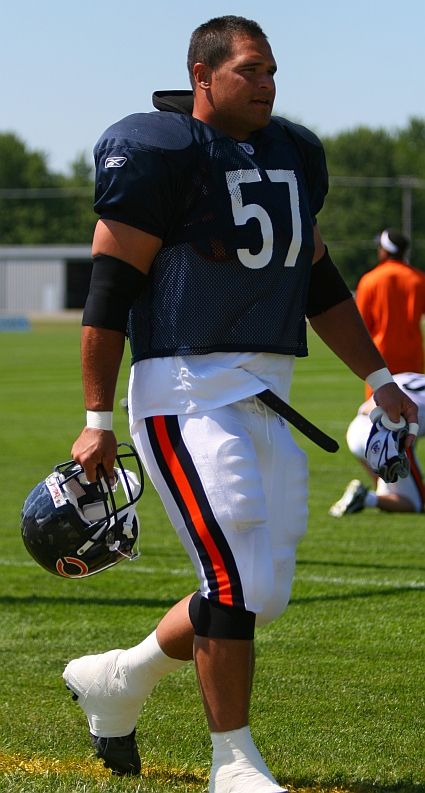 I took this picture of Olin Kreutz on July 27, 2007 at the Chicago Bears 2007 Training Camp.